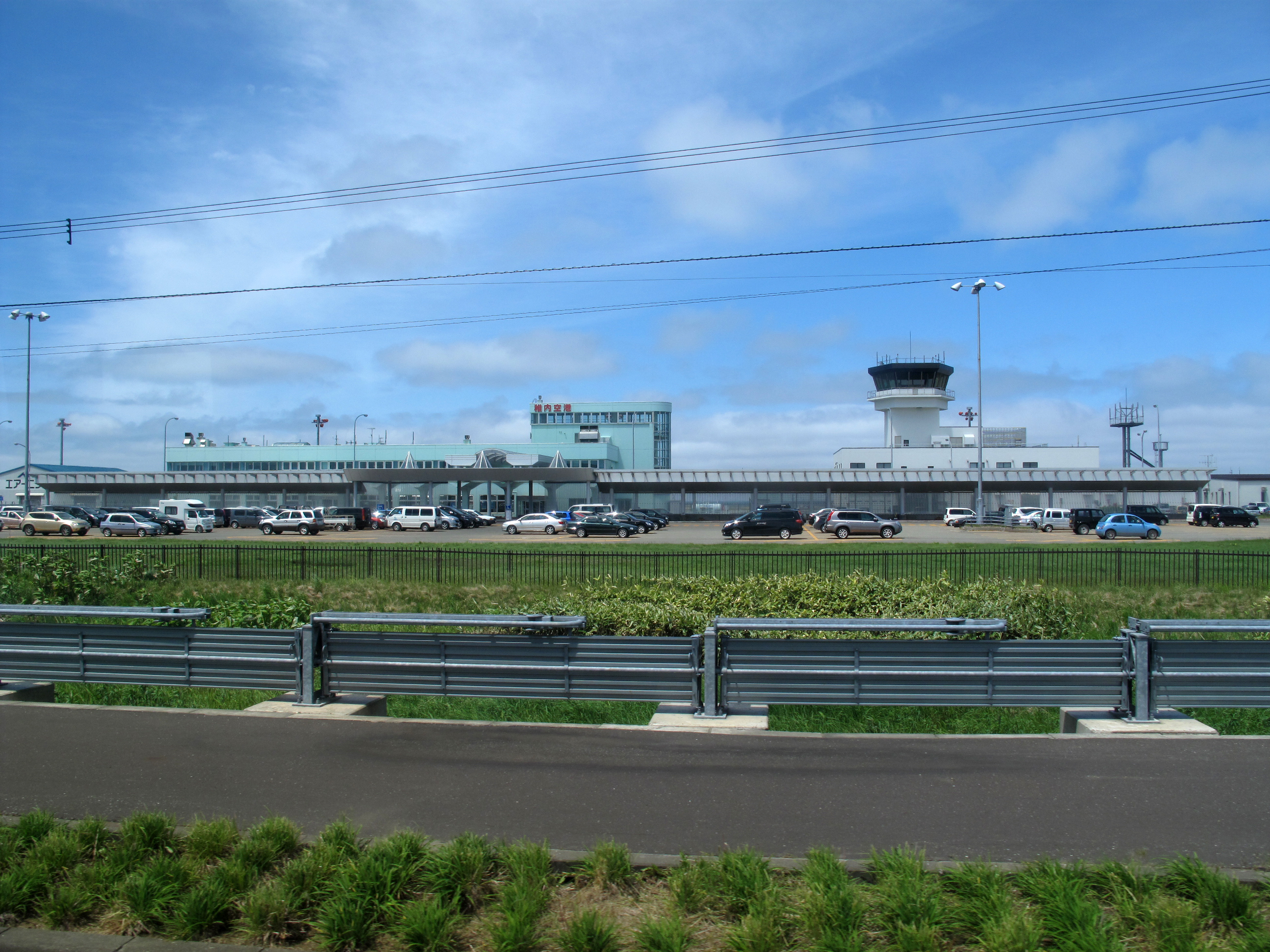 The exterior of Wakkanai Airport